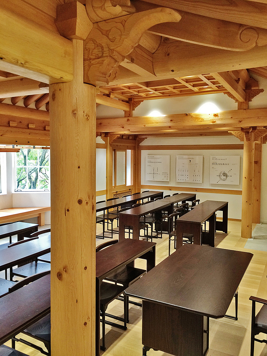 Korean Nationality Room in the Cathedral of Learning at the University of Pittsburgh